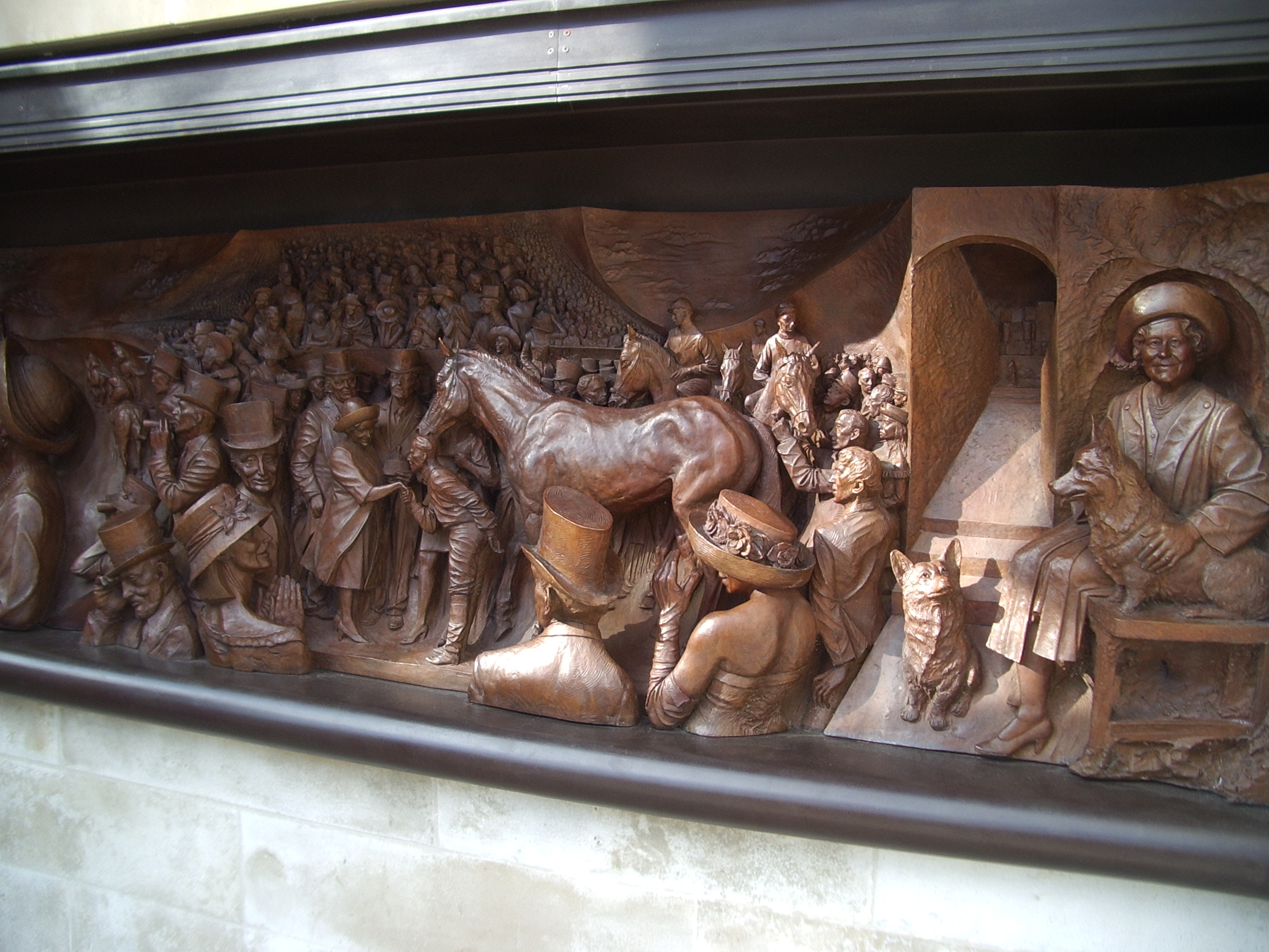 The Queen Mother, her corgis and a day at the races! - a bronze designed by Paul Day (who also designed the marvelous Battle of Britain memorial).